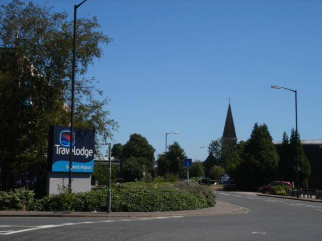 View of remains of Lowfield Heath village, south of Gatwick Airport's runway. Photographed on 4th August 2007.